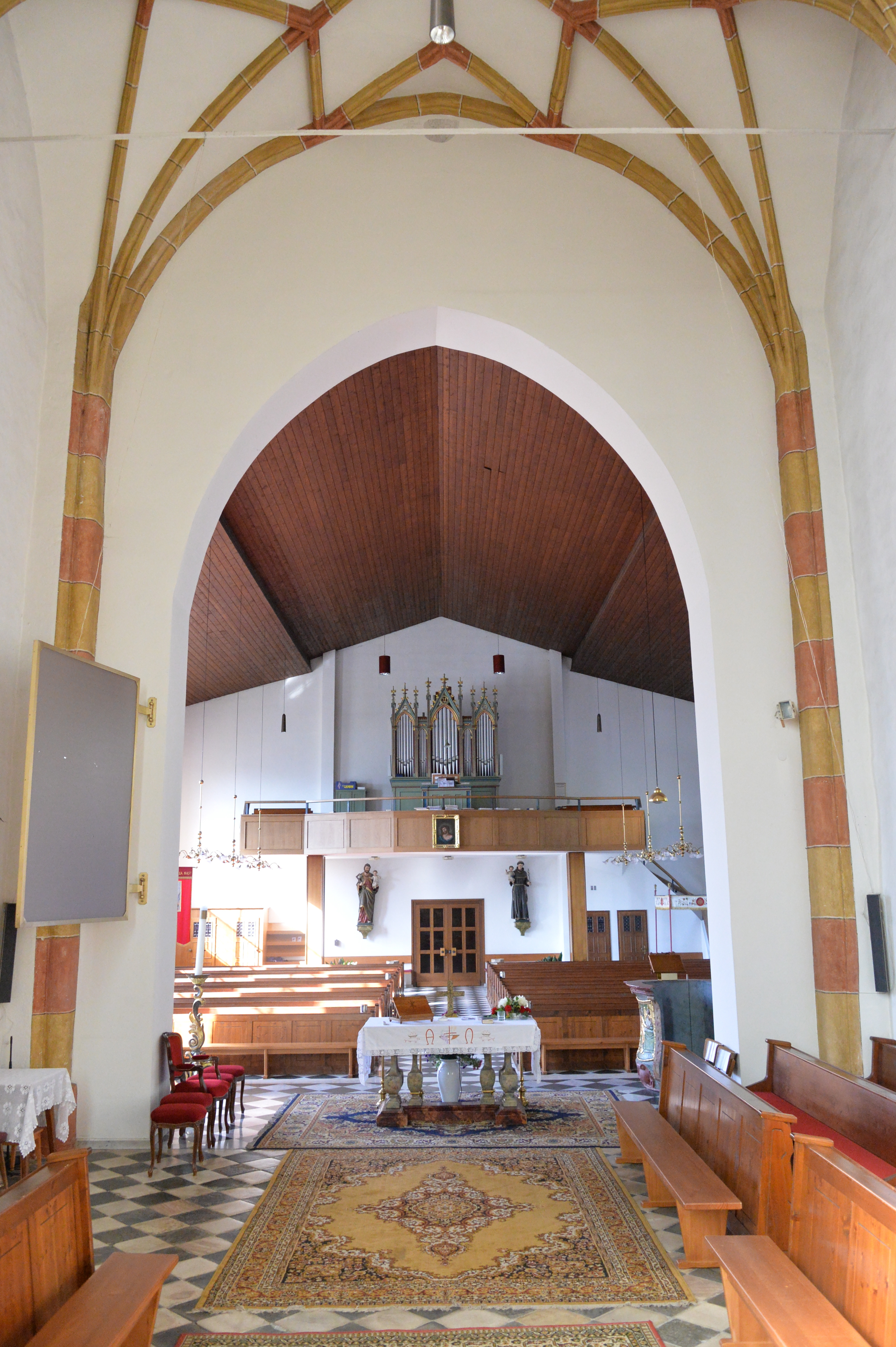 Triumphal arch at the parish church Saint Michael in Sankt Michael ob Bleiburg, market town Feistritz ob Bleiburg, district Voelkermarkt, Carinthia, Austria, EU